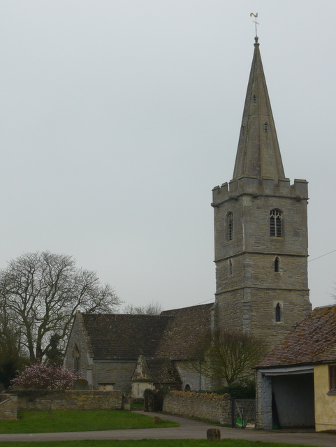 Ashleworth Church, Gloucestershire